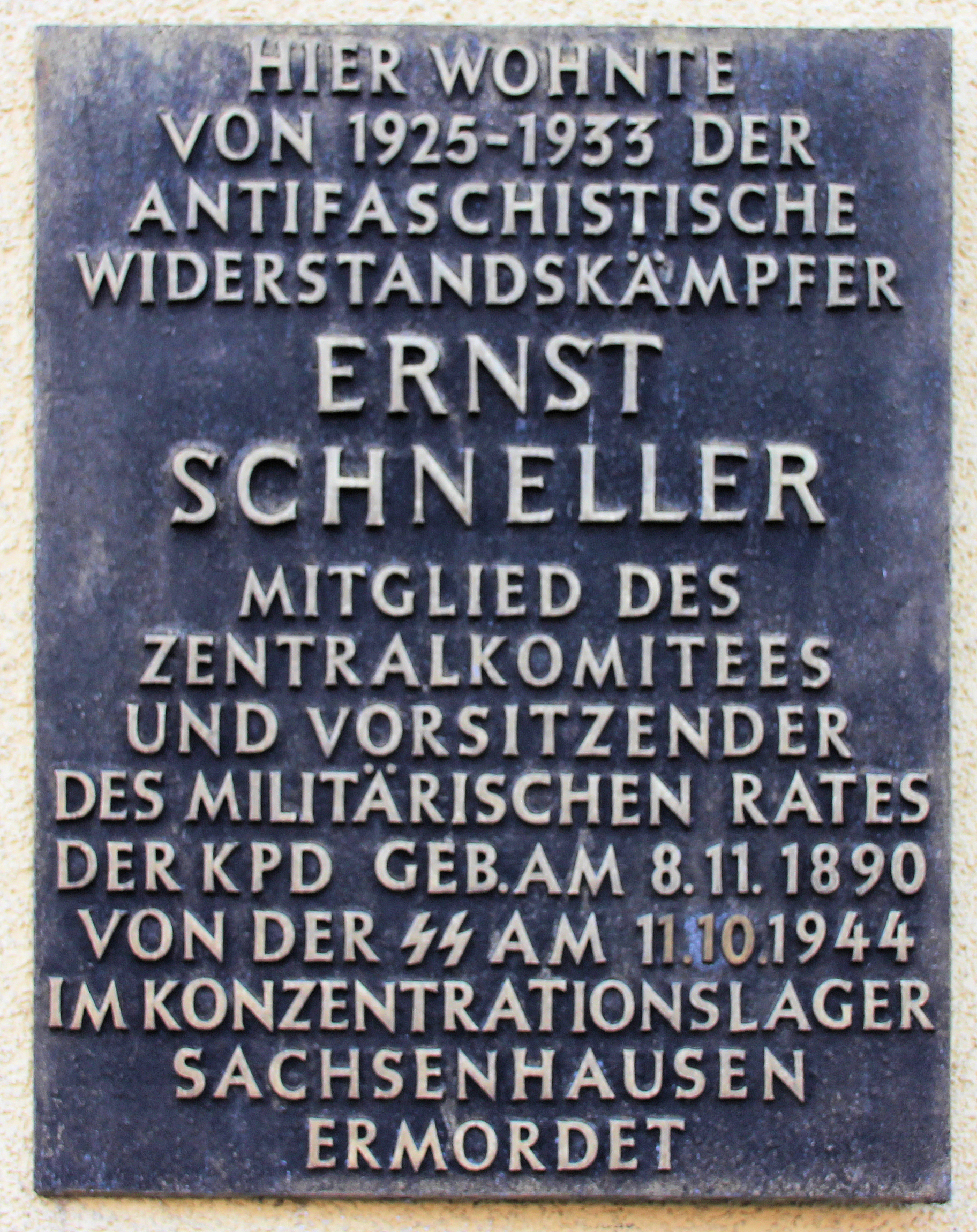 Memorial plaque, Ernst Schneller, Schnellerstraße 70a, Berlin-Niederschöneweide, Germany Koordinate:52°27′8″N 13°31′38″E / 52.45222°N 13.52722°E